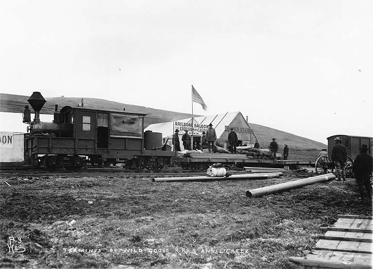 Caption on image: "Terminus of Wild Goose R.R. Anvil Creek" Original image in Hegg Album 18, page 20 . Original photograph by Eric A. Hegg 1481; copied by Webster and Stevens A.3 Subjects (LCTGM): Railroad stations--Alaska--Anvil Creek; Steam locomotives--Alaska--Anvil Creek; Bars--Alaska--Anvil Creek Subjects (LCSH): Wild Goose Railroad; Railroad Saloon (Anvil Creek, Alaska)